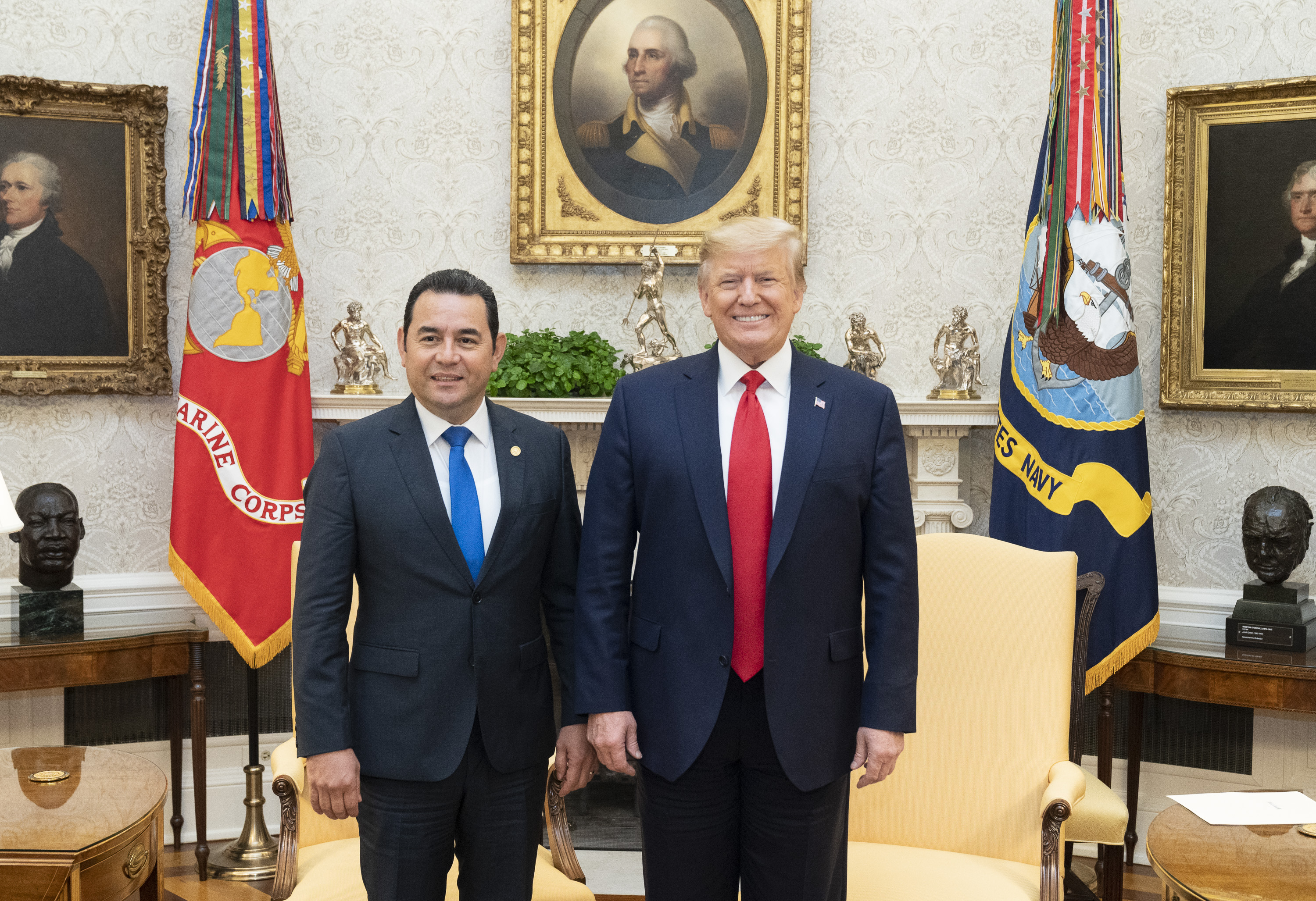 President Donald J. Trump welcomes Guatemalan President Jimmy Morales Tuesday, Dec. 17, 2019, to the Oval Office of the White House. (Official White House Photo by Shealah Craighead)